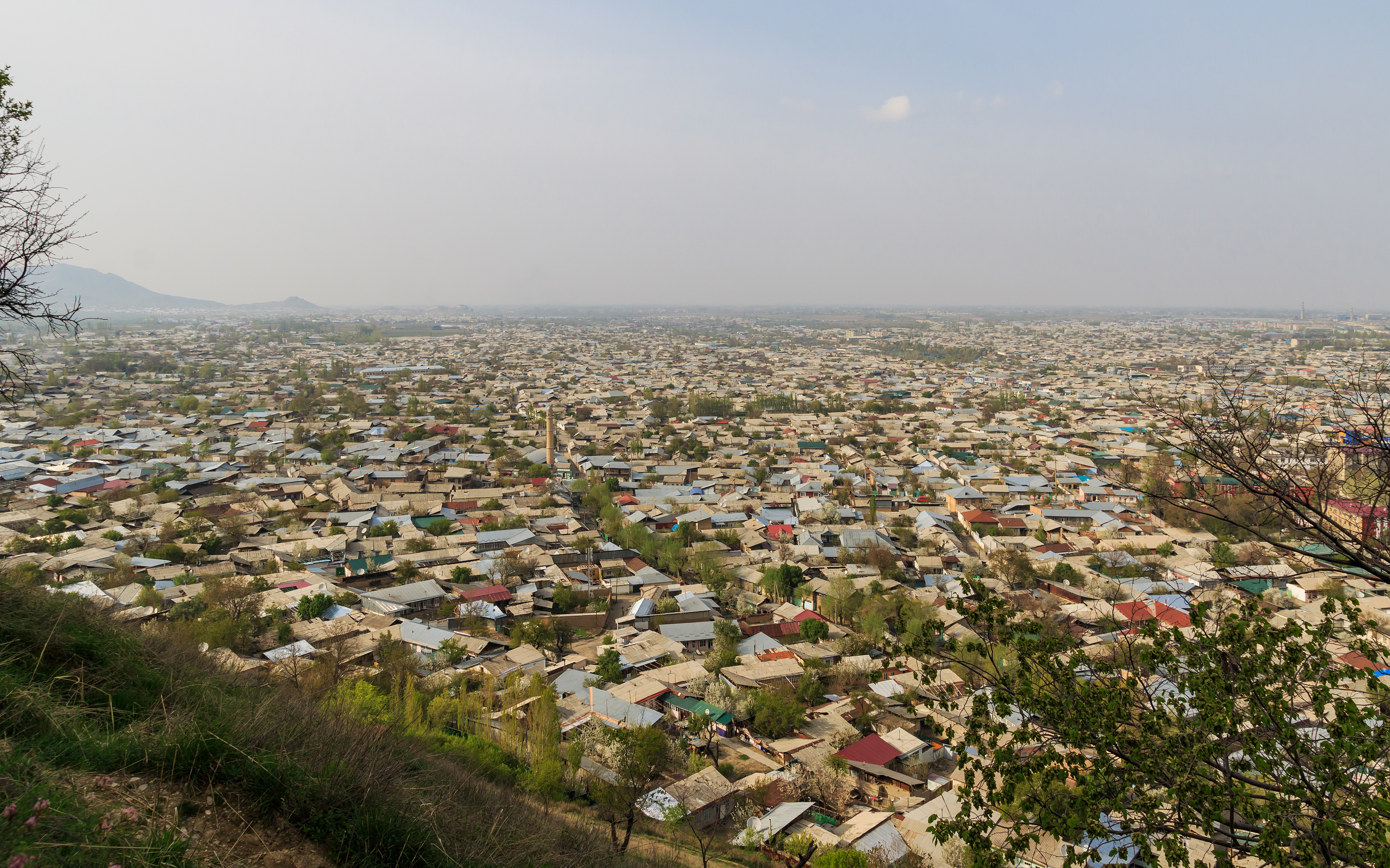 View from Sulayman Mountain in Osh, Kyrgyzstan